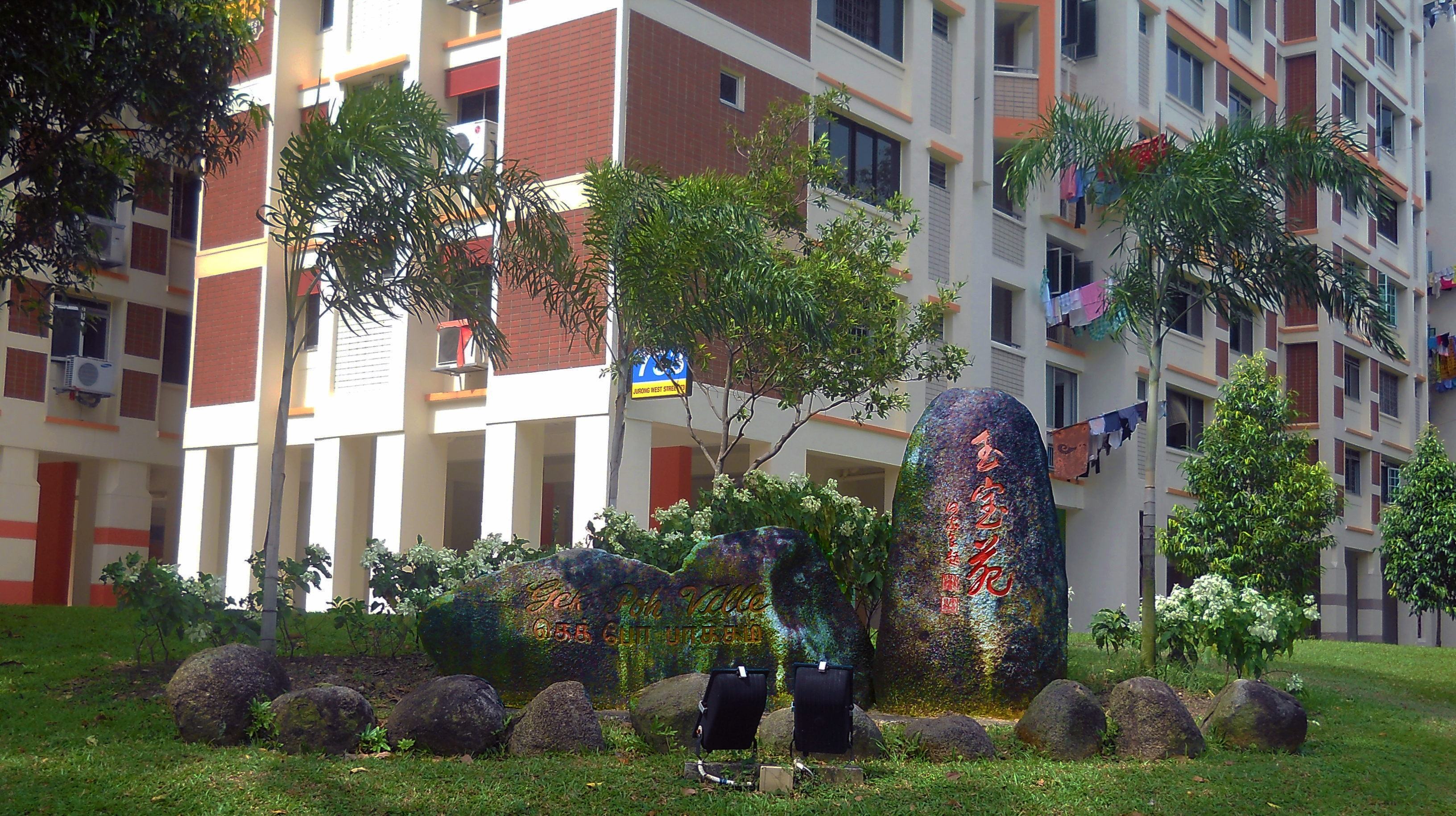 A sign for Gek Poh Ville in Yunnan, Jurong West, Singapore.